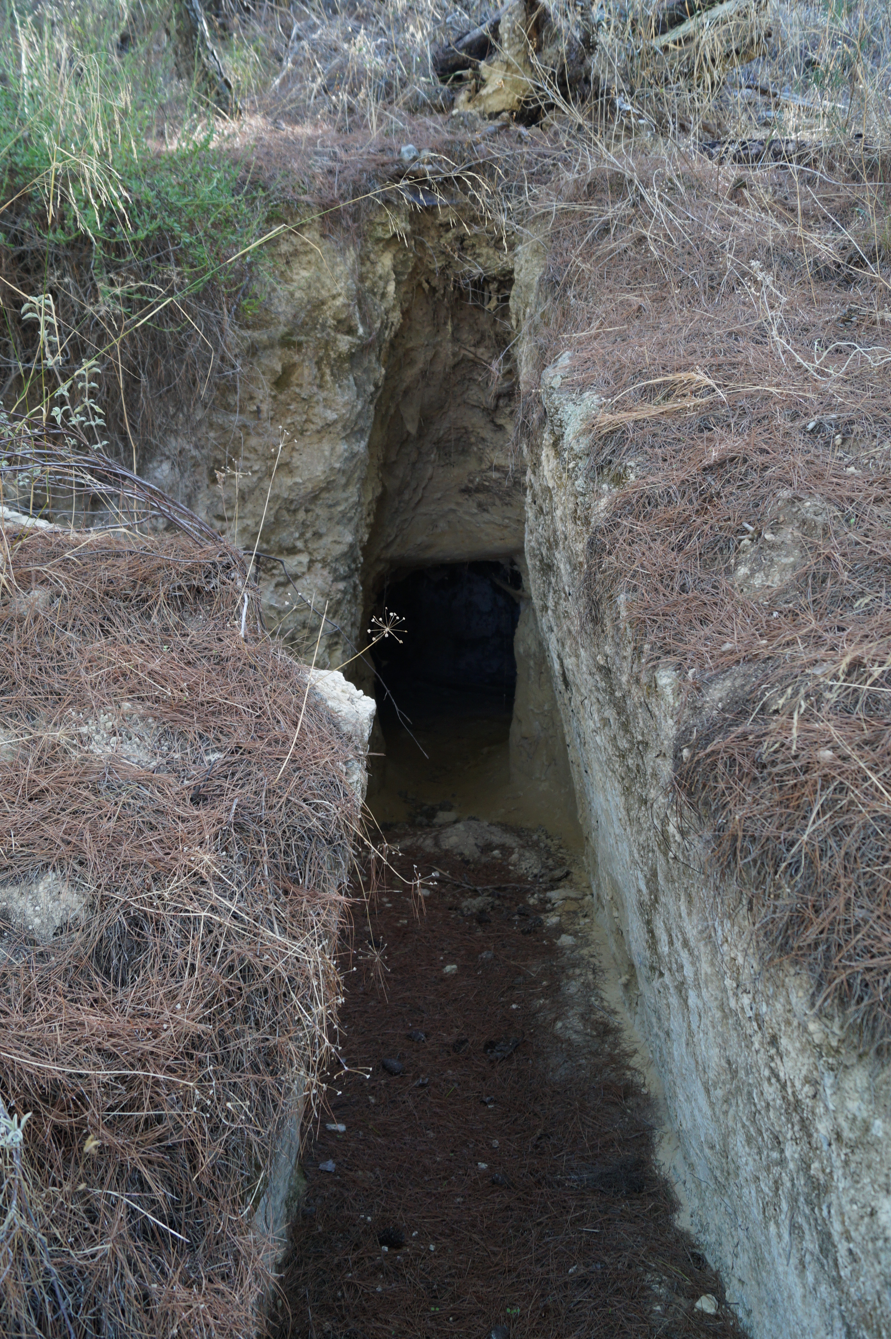 Kato Almyri, Corinthia, Greece: View from north on the dromos of tomb XI of the mycenaean cemetery of Kato Almyri. To the left there is a side chamber in the dromos.